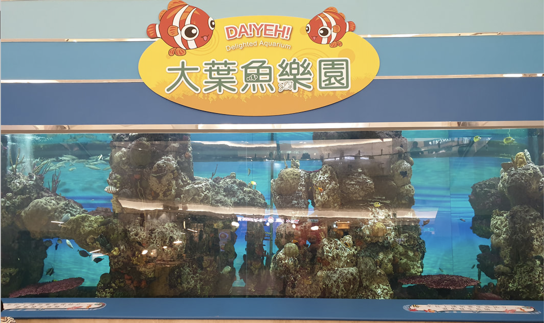 Dayeh Aquarium @ Dayeh Takashimaya Department Store(Taipei, Taiwan)